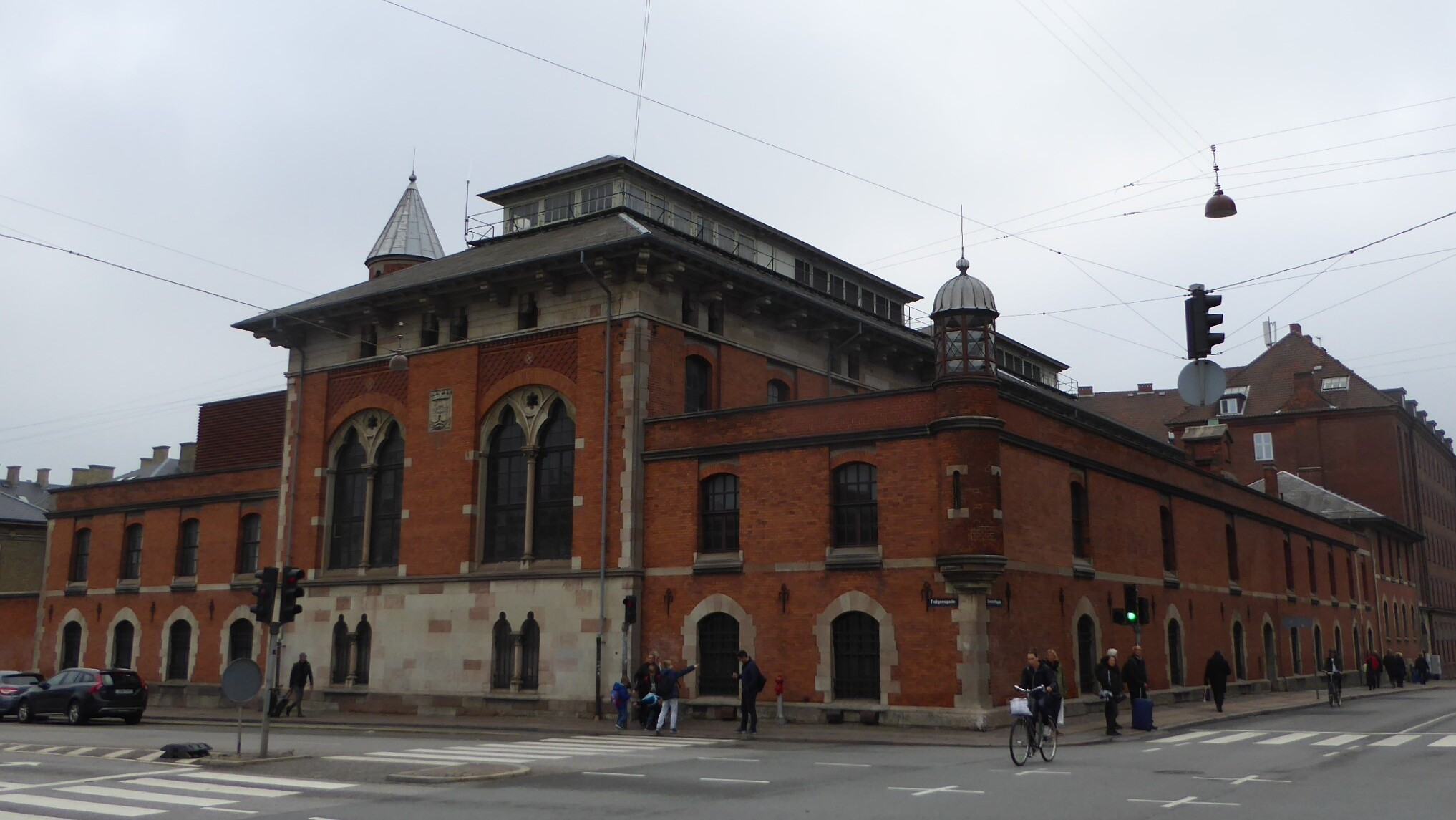 The former Vestre Elektricitetsværk at the corner of Tietgensgade and Bernstorffsgade in Vesterbro in Copenhagen. It was build as a power plant in 1898 but became a distribution substation in 1921. In 1974 it was renamed Tietgensgade Transformerstation.